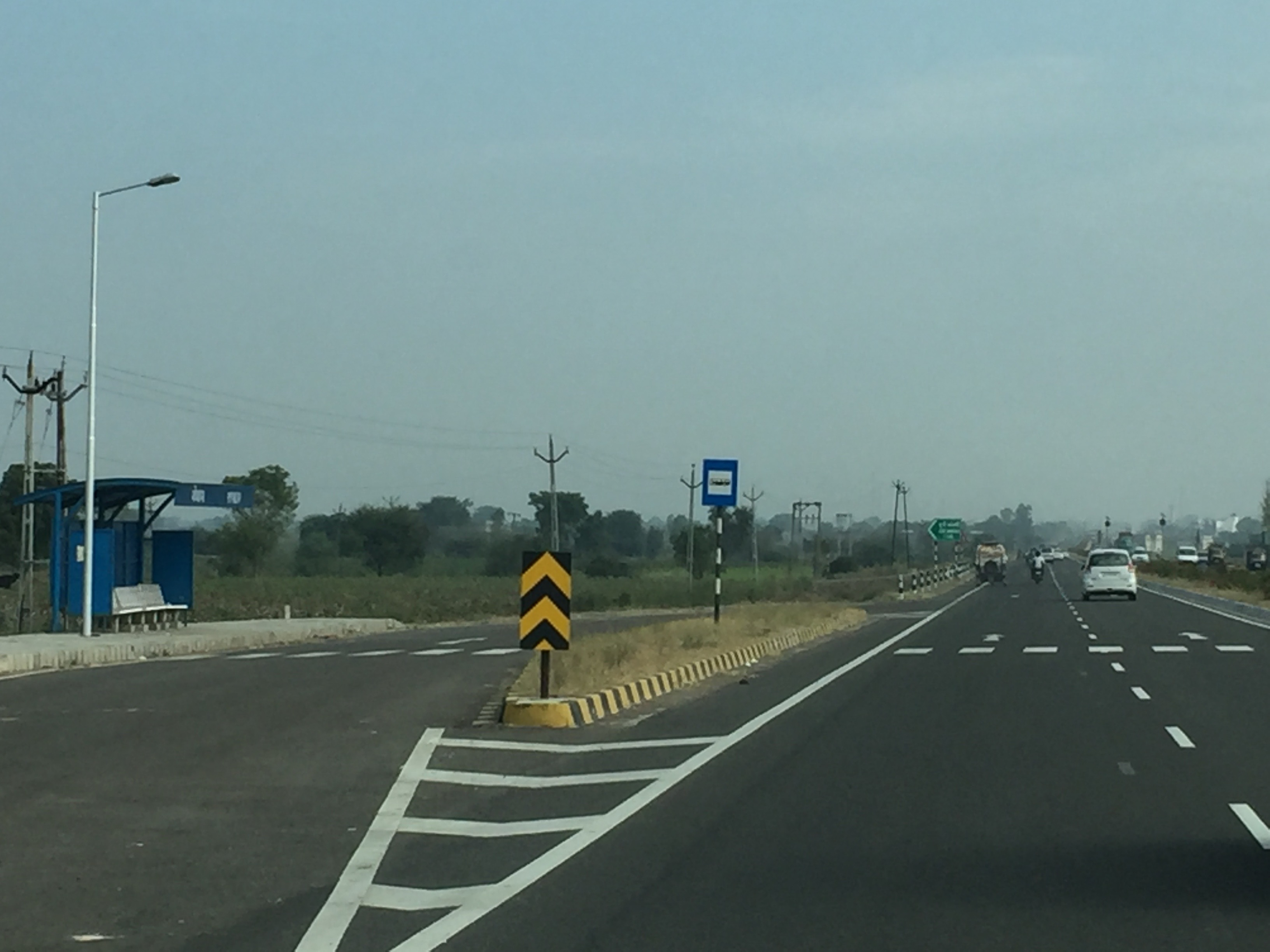 Gujarat has over 2,000 kilometers of 4 lane highway network connecting all its major cities and towns Dedicated stands are attached to these highways for intercity and town/village public transport.